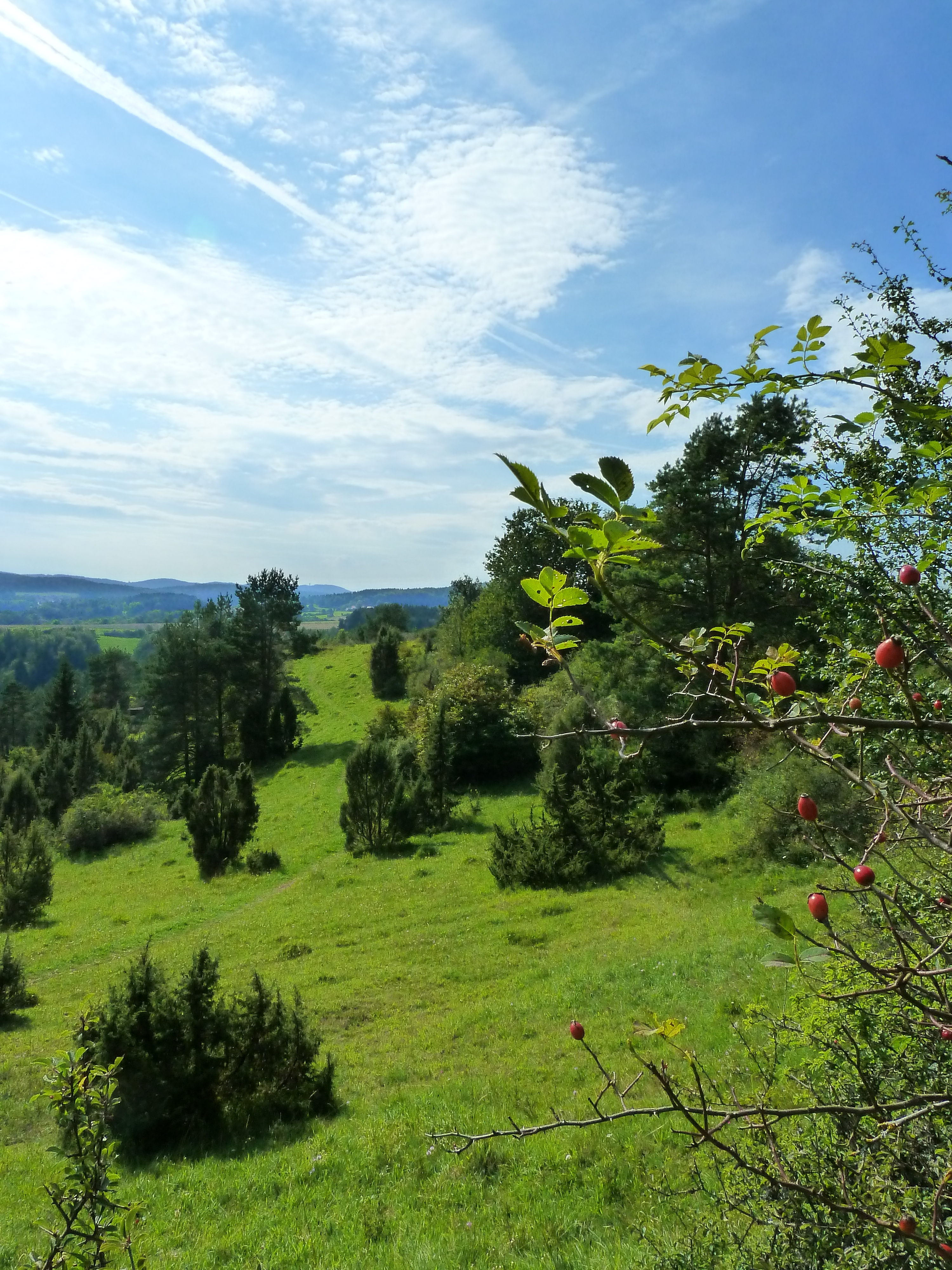 Calcareous meadow with junipers near Kastl, Naturpark Hirschwald, Bavaria